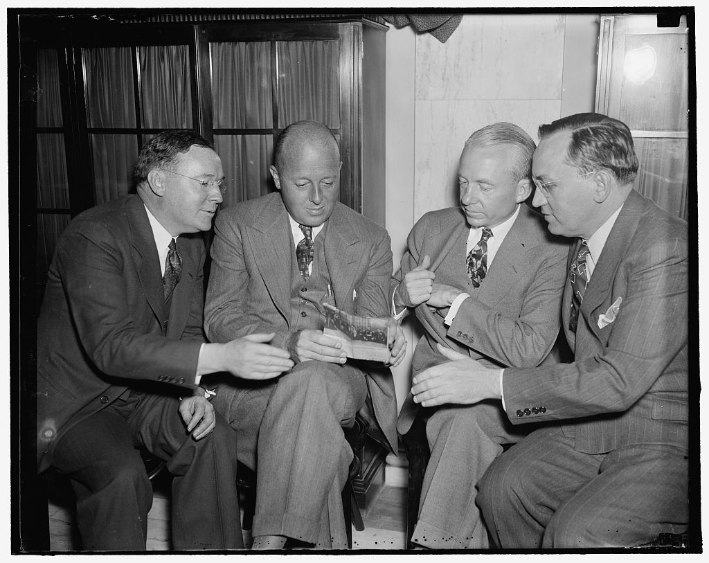 New heads of the Van Sweringen RR Empire. Washington, D.C., May 6. Senator Wheeler's Senate Committee began today started investigation of the latest transfer of control of the Van Sweringen Railroad Empire. Two weeks ago George Ball sold the control to three brokers of the New York namely Young, Kobe and Co. who are closely identified with General Motors and Du Pont interests. Left to right in a huddle before the session are: Walter S. Orr, attorney for the brokers; and the new owners Allen P. Kirby; Robert R. Young; and Frank F. Kolbe, 5/6/1937